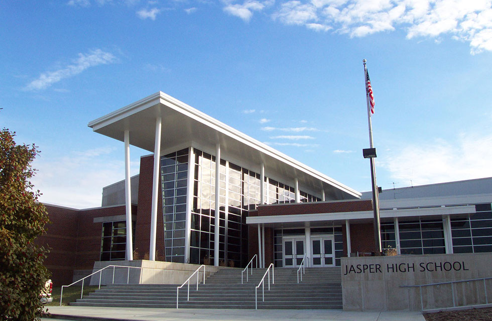 Front entrance to Jasper High School